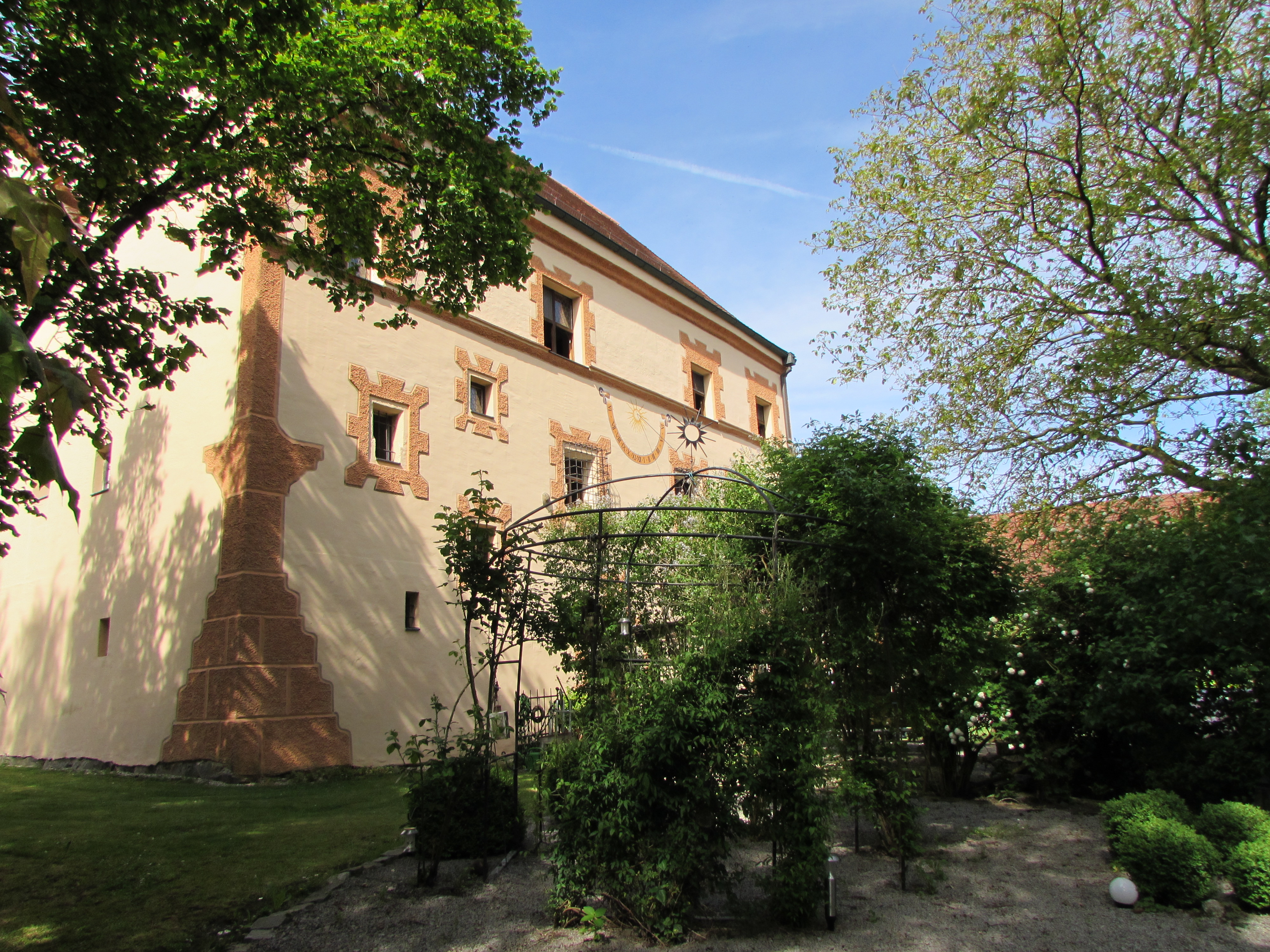 This is a photograph of an architectural monument.